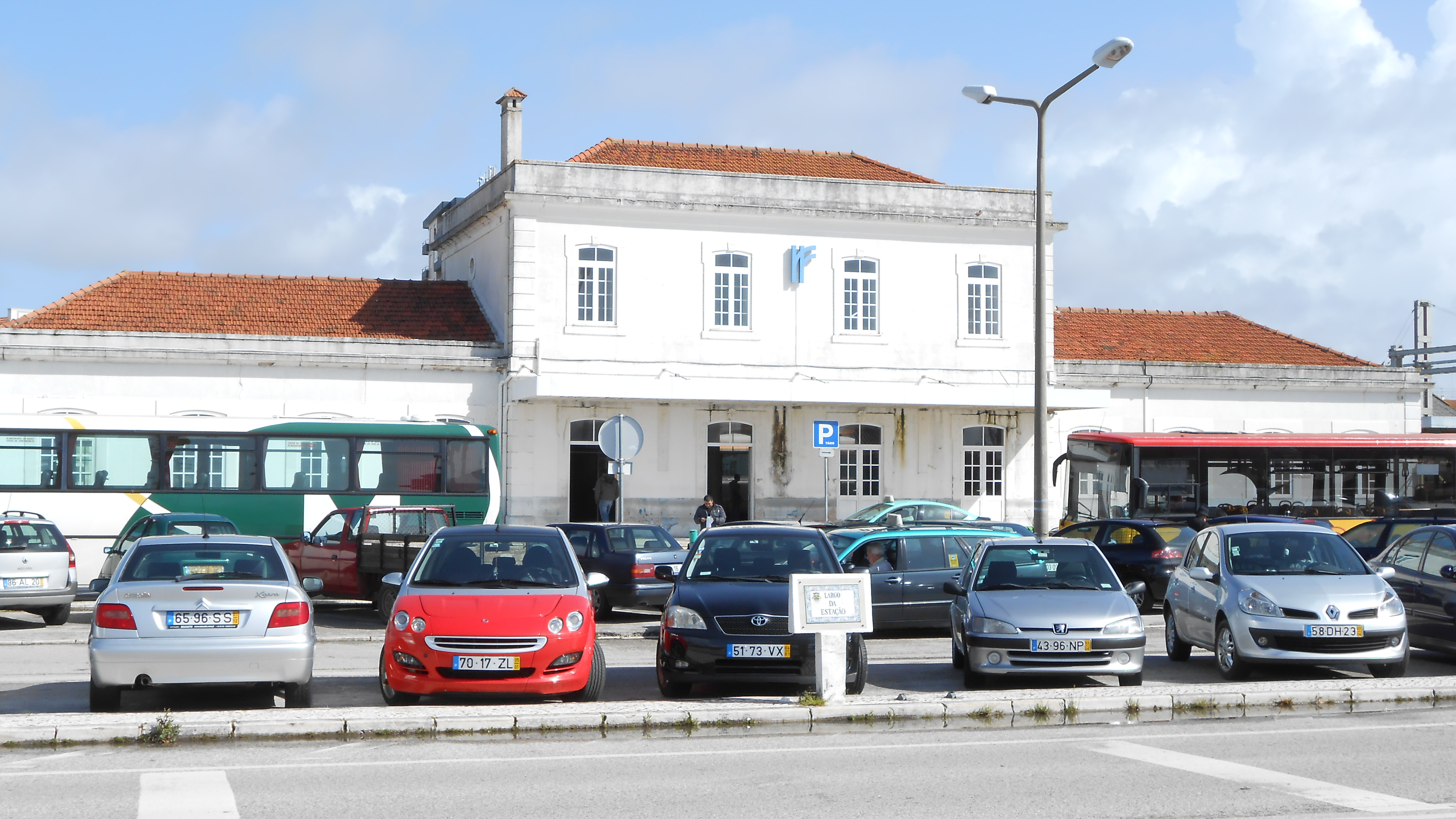 Front view of the Figueira da Foz train station